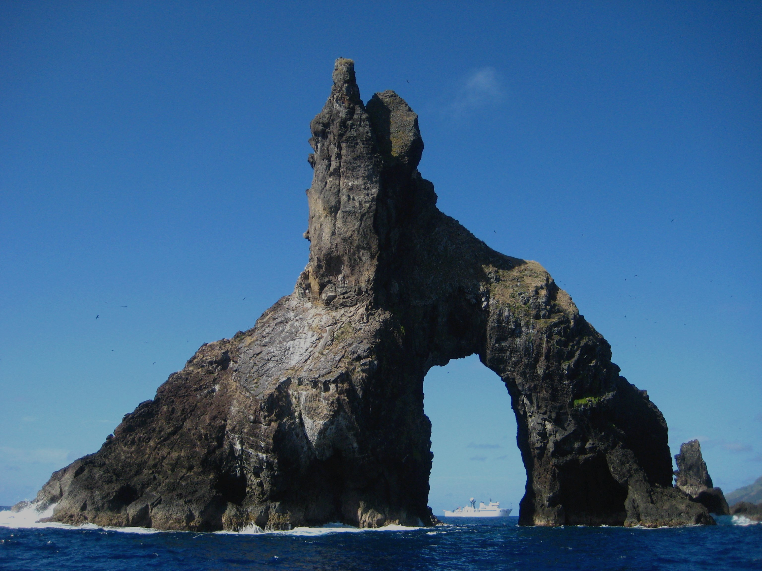 NOAA Ship HI'IALAKAI seen offshore through natural arch at Pagan Island.